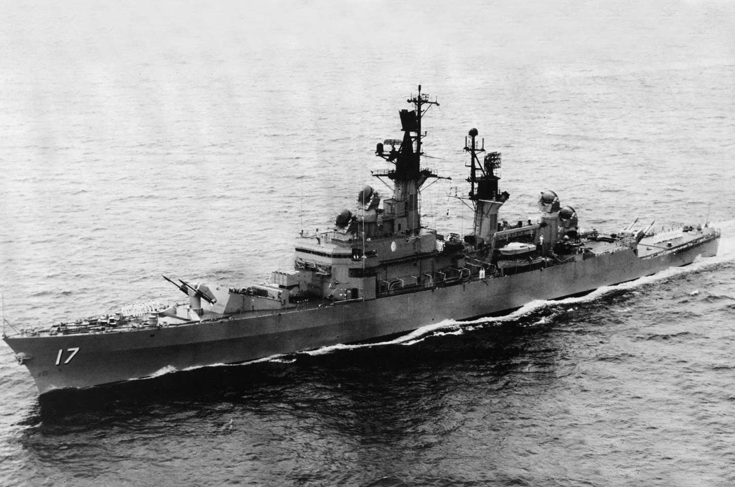 The U.S. Navy guided missile cruiser USS Harry E. Yarnell (DLG-17) underway at sea in 1967.